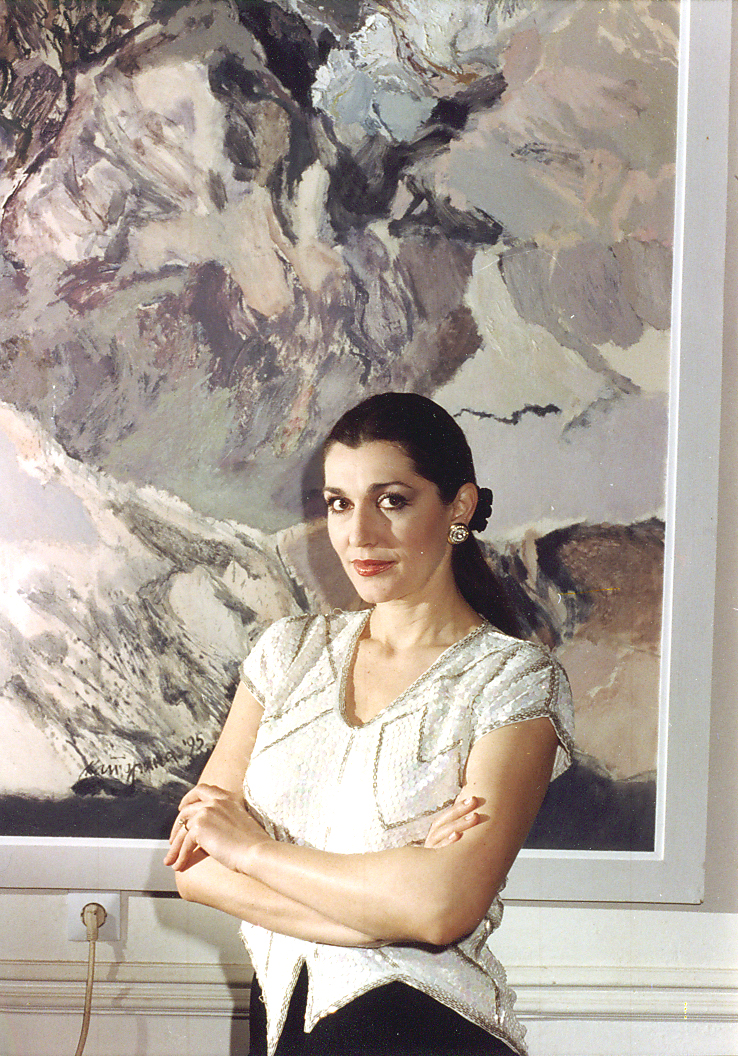 Jadranka Jovanović, female opera vocalist from Serbia